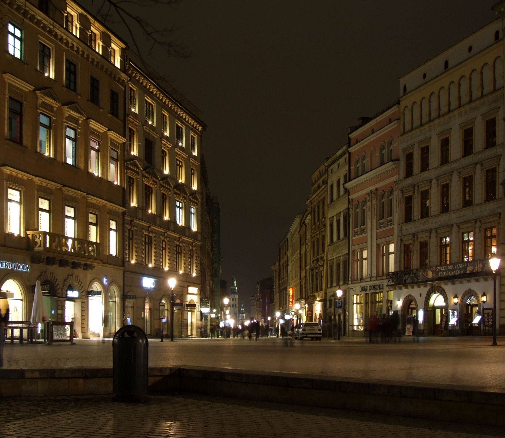 Grodzka street in Krakow